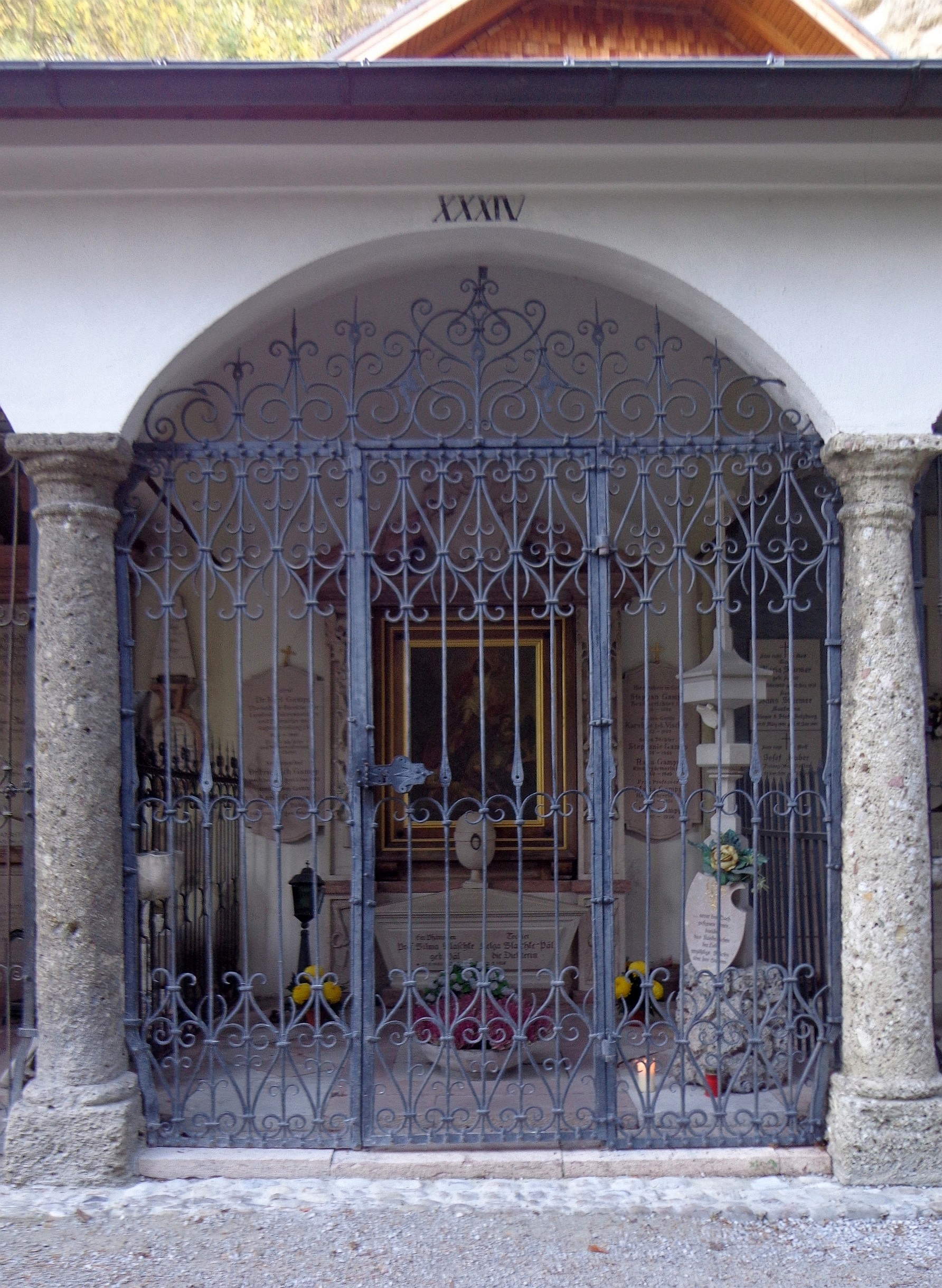 Crypt 34 (Petersfriedhof Salzburg) Gampp-BlaschkePál - from outside